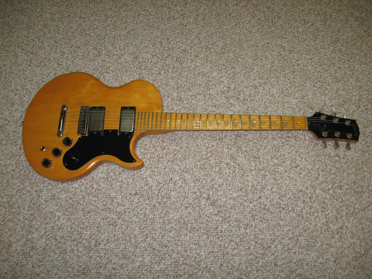 Gibson L6-S Custom front view